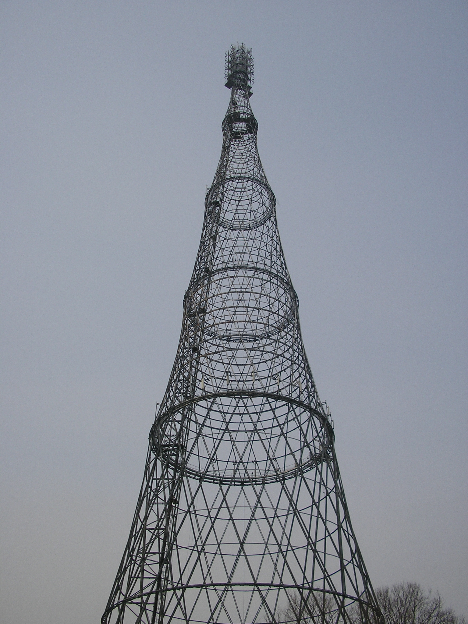 The hyperboloid tower was designed and constructed by the great Russian engineer and scientist Vladimir Shukhov (1853-1939) in 1922.